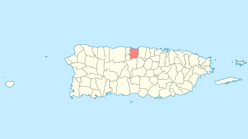 Municipal locator of Puerto Rico